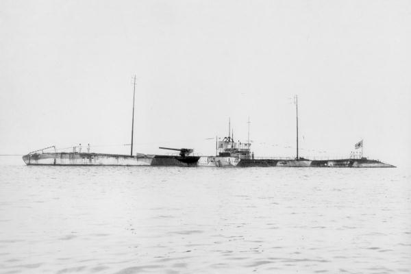 Japanese submarine Maru-1 (ex-U125), at Yokosuka.